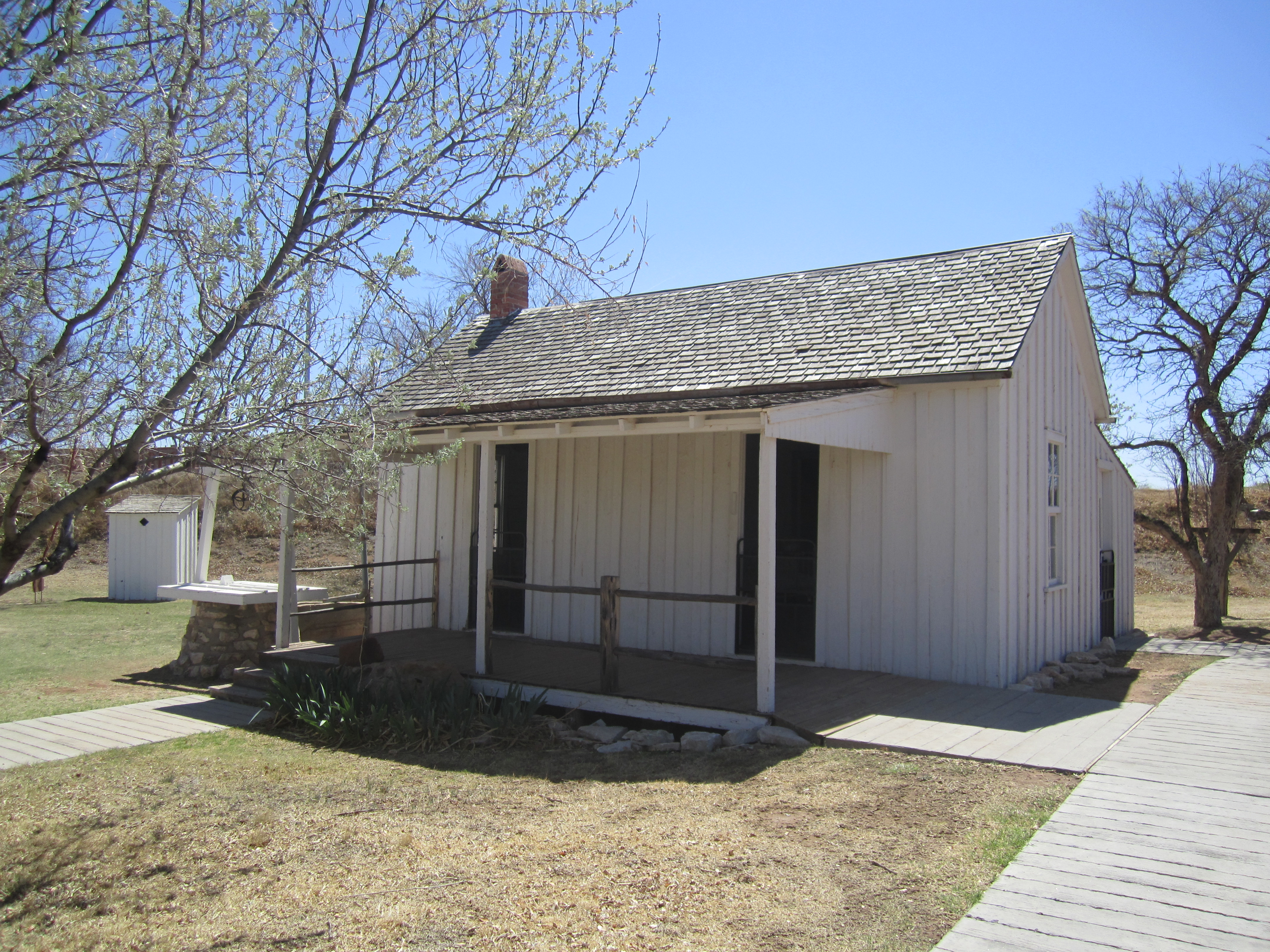 Box and Strip House — at the National Ranching Heritage Center. At Texas Tech University in Lubbock, Texas.} I took photo at NRHC with Canon camera.